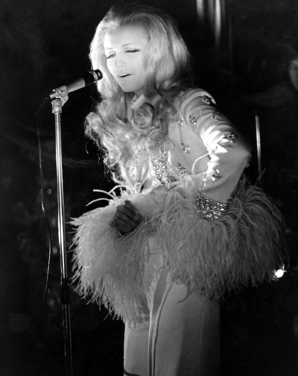 Italian singer Patty Pravo in concert at the Piper Club in Rome, January 4, 1969.